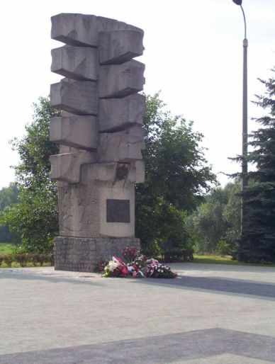 Monument to the Fallen Citizen's Militia in Czerwonak of 1945